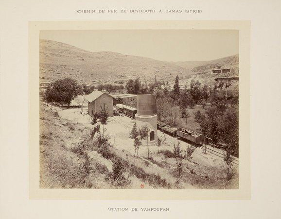 Yahfufah or Yafufa Station on the DHP's Beirut–Damascus Railway.